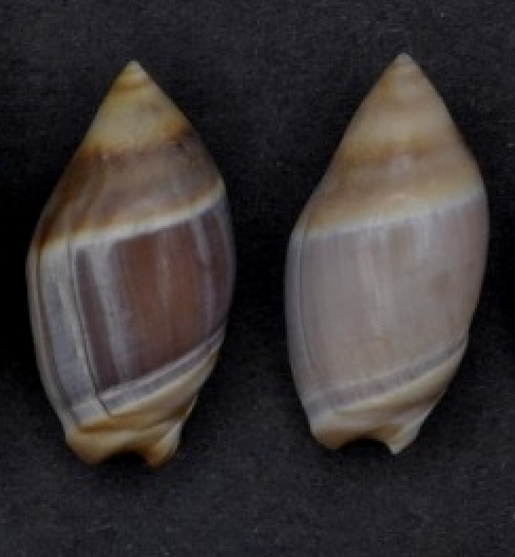 Seashells of Amalda australis (G.B. Sowerby I, 1830)[1] from the collection of Naturalis Biodiversity Center, Taken in New Zealand.